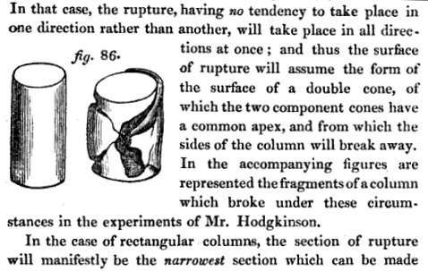 Detail of Experiment on cylindrical column by Eaton Hodgkinson showing failure mode under load. From Illustrations of Mechanics by Henry Moseley, 1839. Published by Longman, Orme, Brown, Green and Longmans, Paternoster-Row, London.